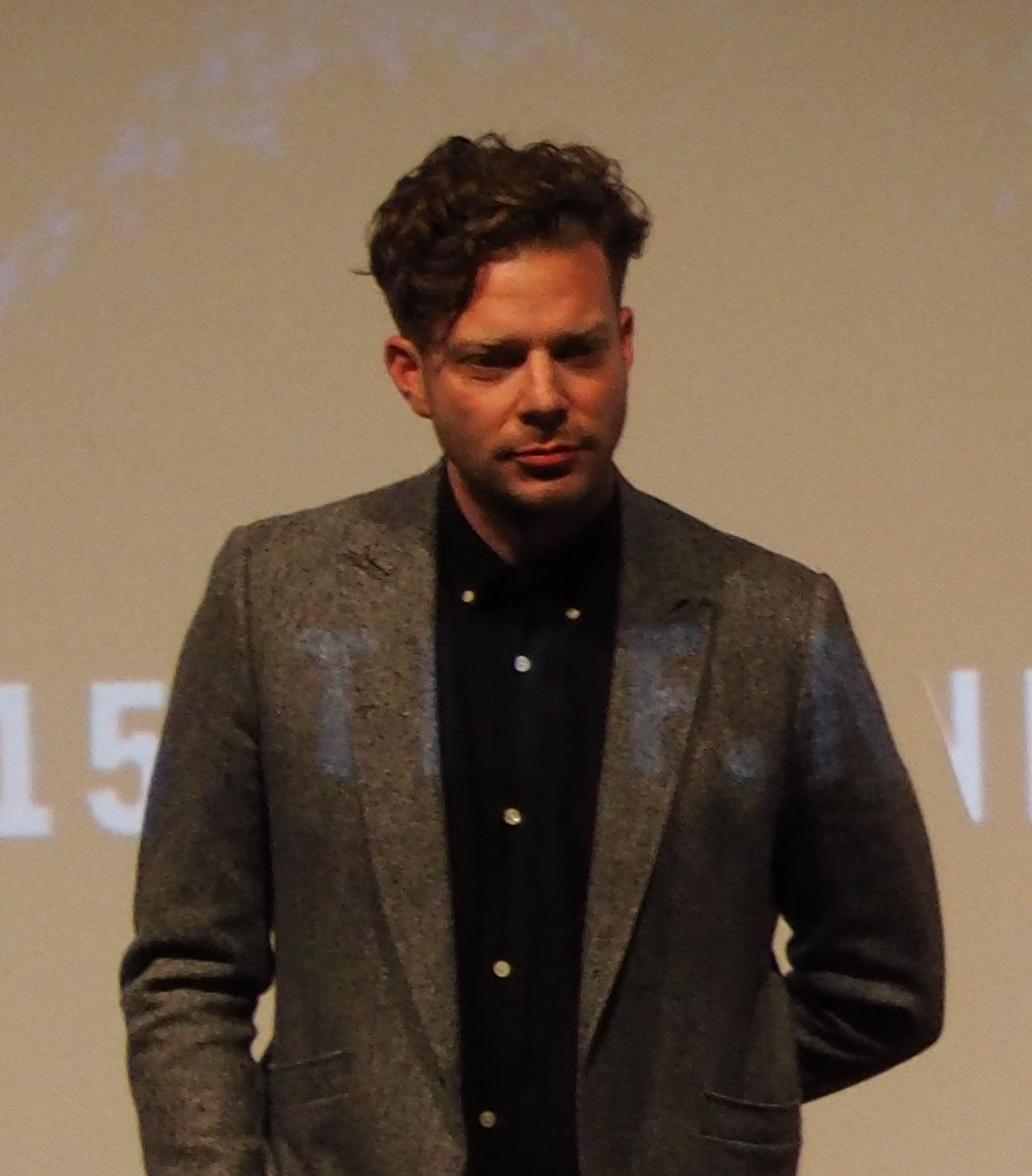 Director Todd Strauss-Schulson at the 2015 Toronto International Film Festival for The Final Girls.